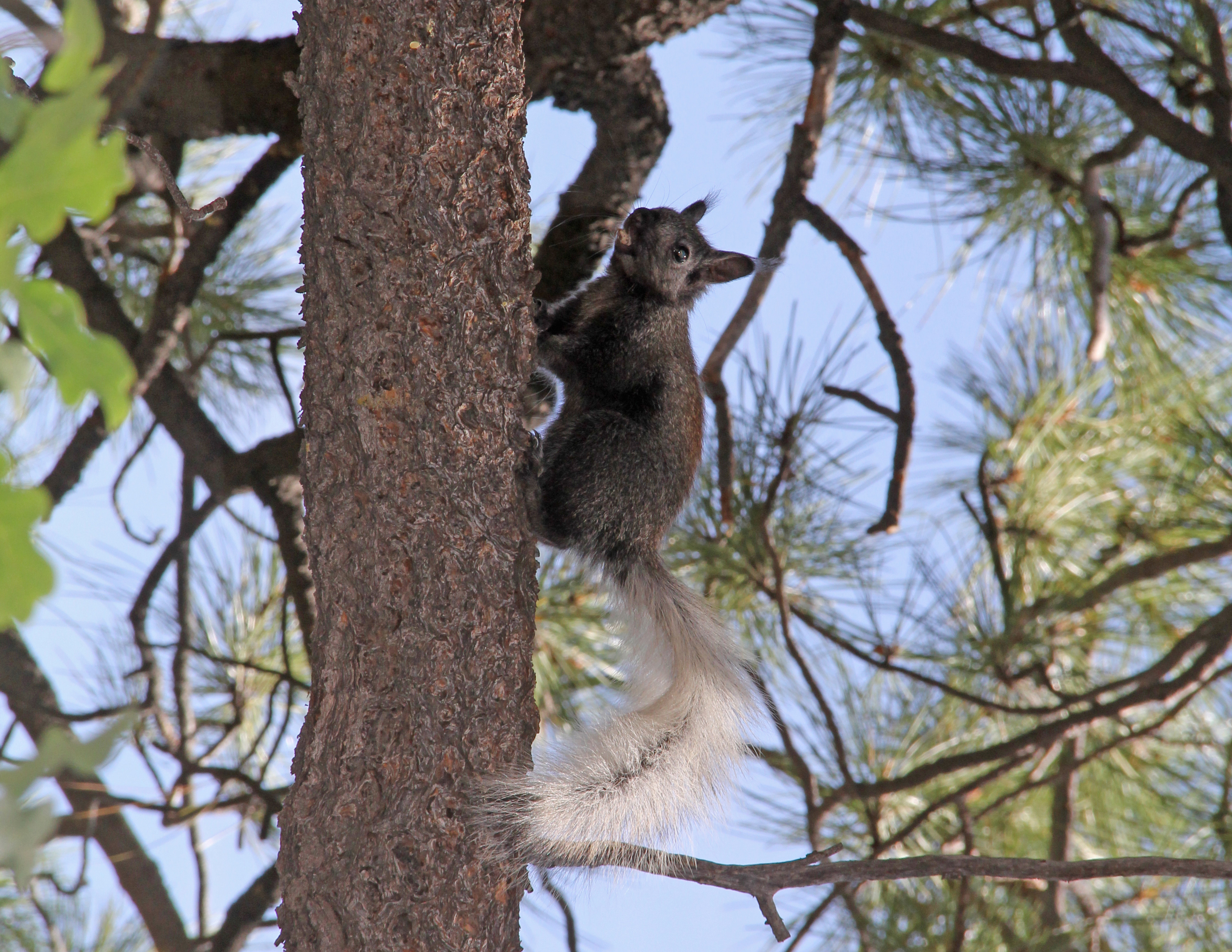 (3456 x 2670) The Kaibab Squirrel (Sciurus aberti kaibabensis) is found only on the Kaibab Plateau in Northern Arizona, including the North Rim of Grand Canyon National Park. The squirrel is entirely dependent upon Ponderosa Pines for food and habitat. Photo taken near the Grand Canyon Lodge. NPS Photo by Allyson Mathis